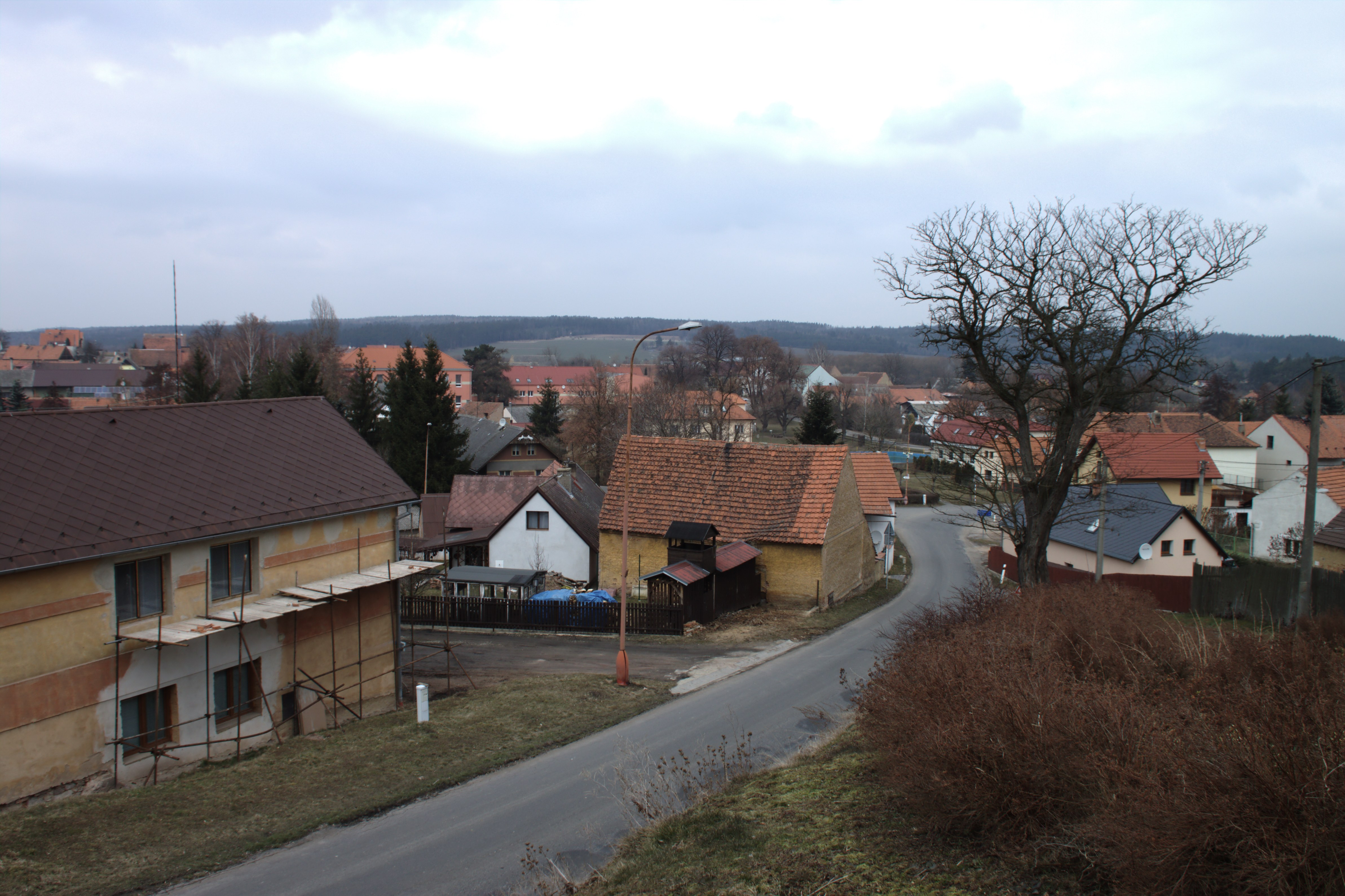 View of the town of Šanov in Rakovník District, Central Bohemian Region, CZ